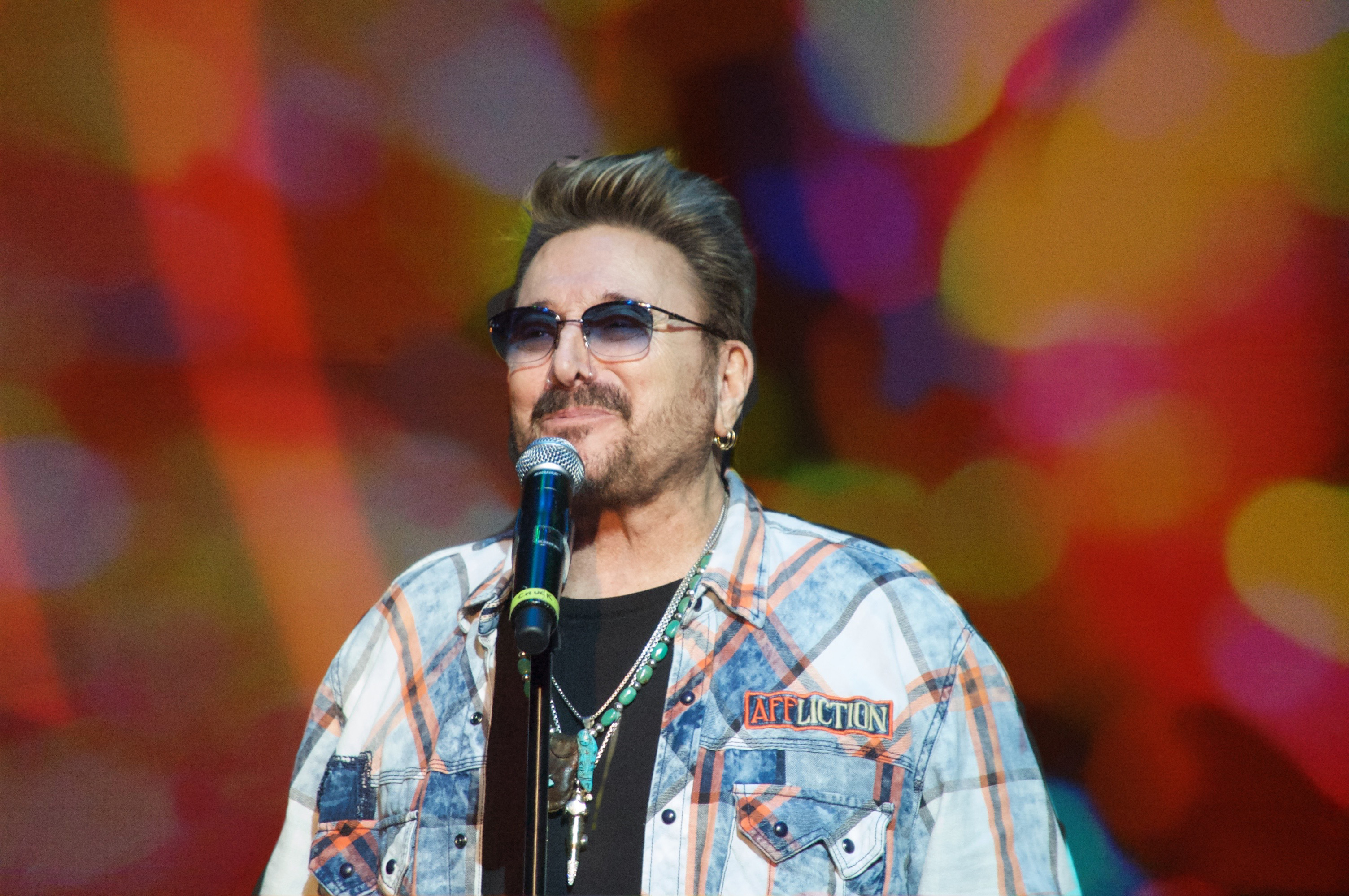 Legendary vocalist Chuck Negron, formerly of Three Dog Night, performs live at the Wilmington (DE) Playhouse as part of the Happy Together Tour in 2017